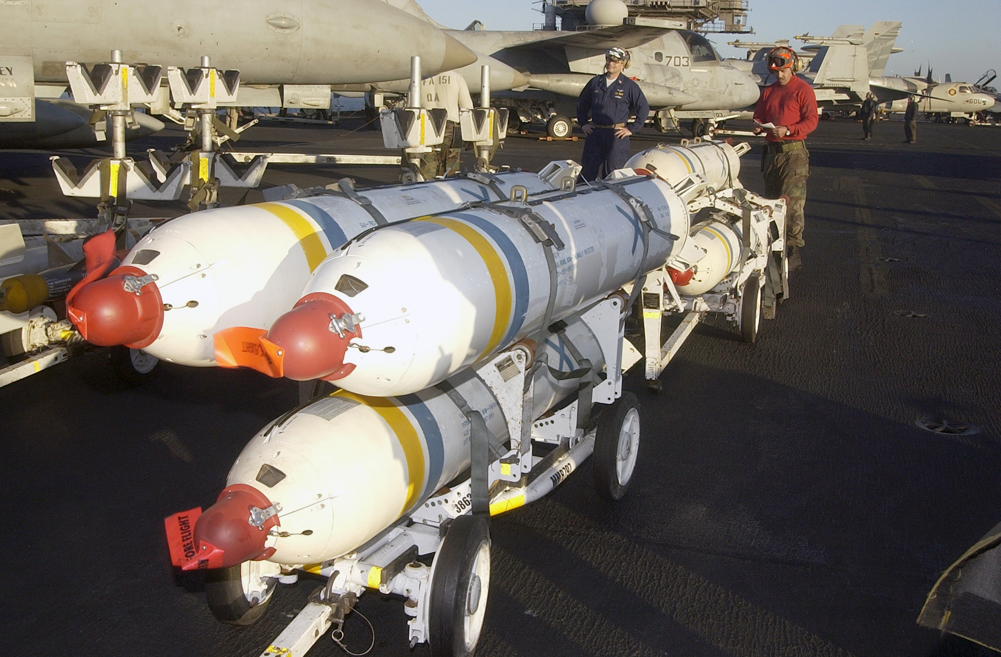 The Arabian Gulf (Mar. 8, 2003) -- Aviation Ordnanceman 2nd Class Mike Mock inspects three PDU-5 Leaflet Bombs sitting on the flight deck of the aircraft carrier USS Constellation (CV 64) before loading them onto an F/A-18C “Hornet.” Constellation is currently deployed and conducting missions in support of Operations Southern Watch and Enduring Freedom. U.S. Navy photo by Photographer's Mate 2nd Class Felix Garza. (RELEASED)